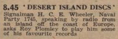 Radio Times, issue 1155, page 23 - entry for Desert Island Discs, featuring Signalman Henry Wheeler.